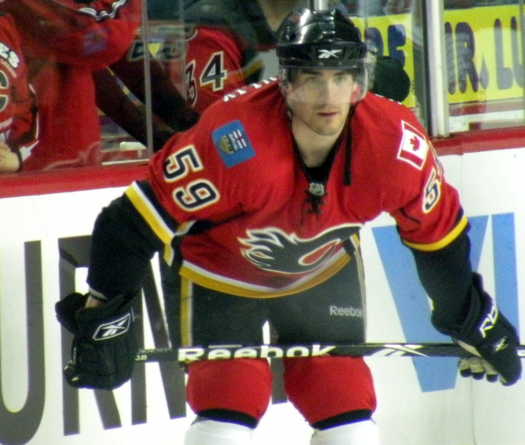 Calgary Flames' rookie David Van der Gulik during warm-up prior to making his National Hockey League debut.